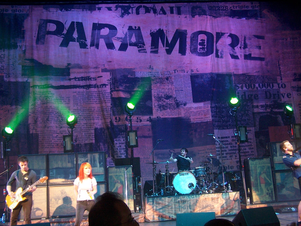 Paramore opening of the show No Doubt in General Motors Place.